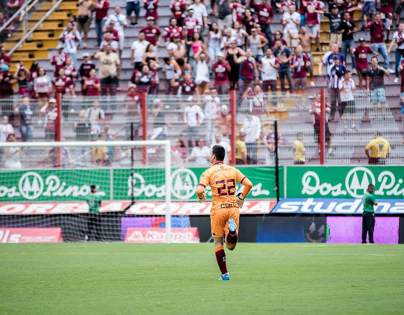 Mario Sequeira making his debut for Deportivo Saprissa in July, 2016.